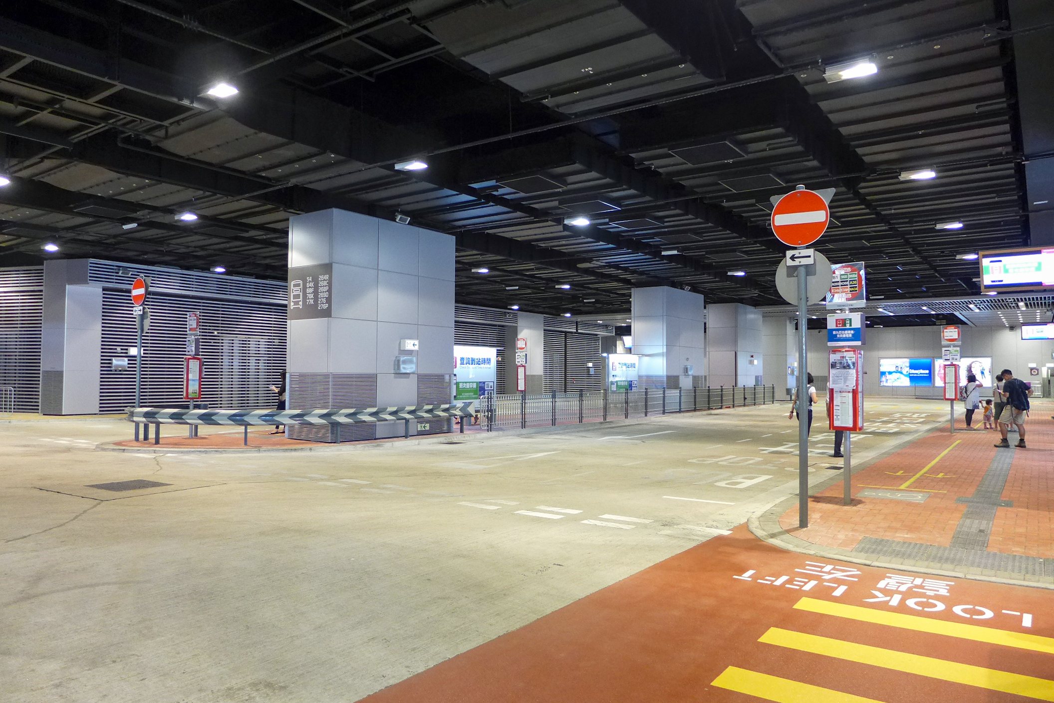 Grand YOHO Bus Stop